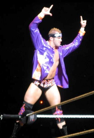 WWE Superstar Zack Ryder